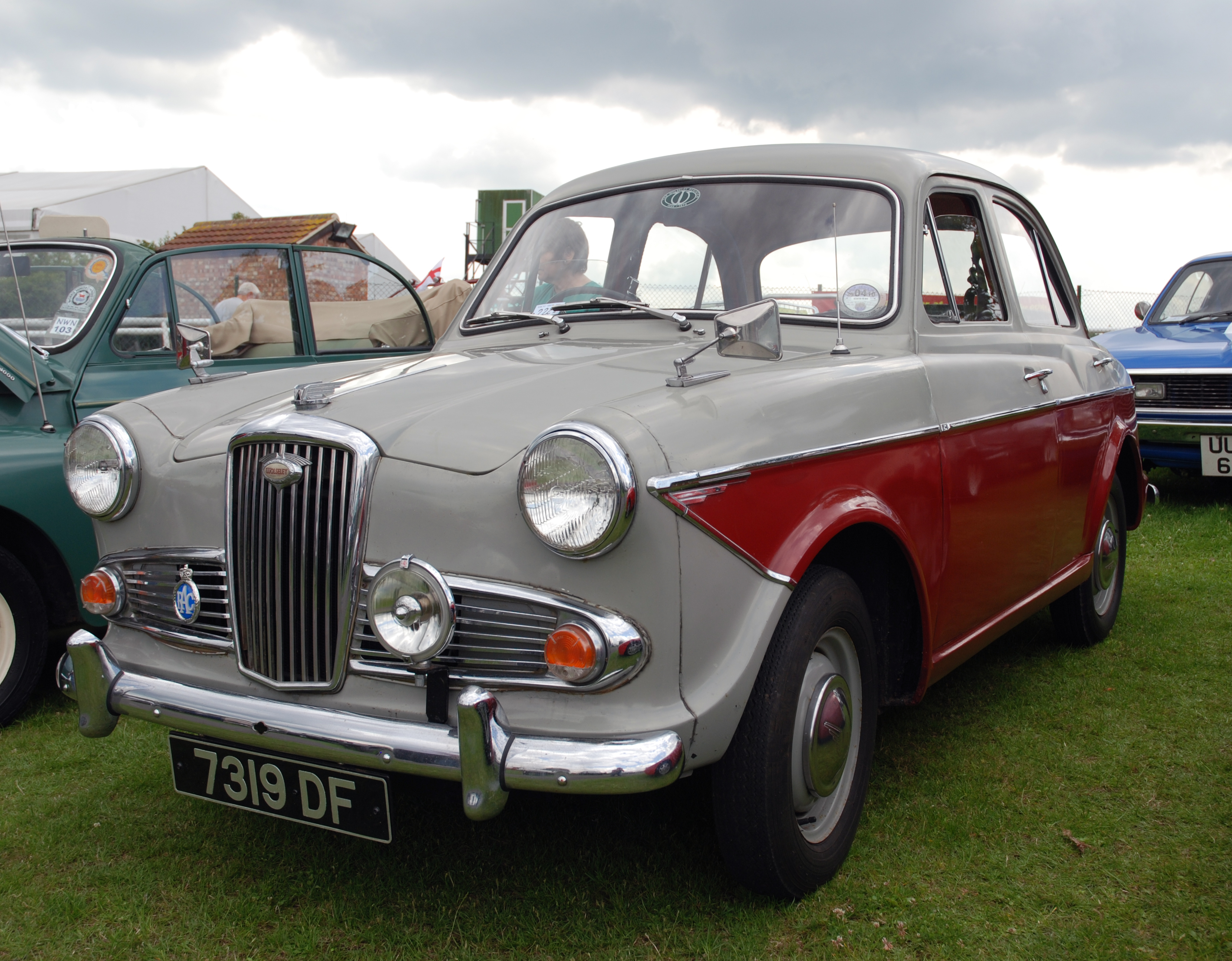 Newbury,Aug 2009